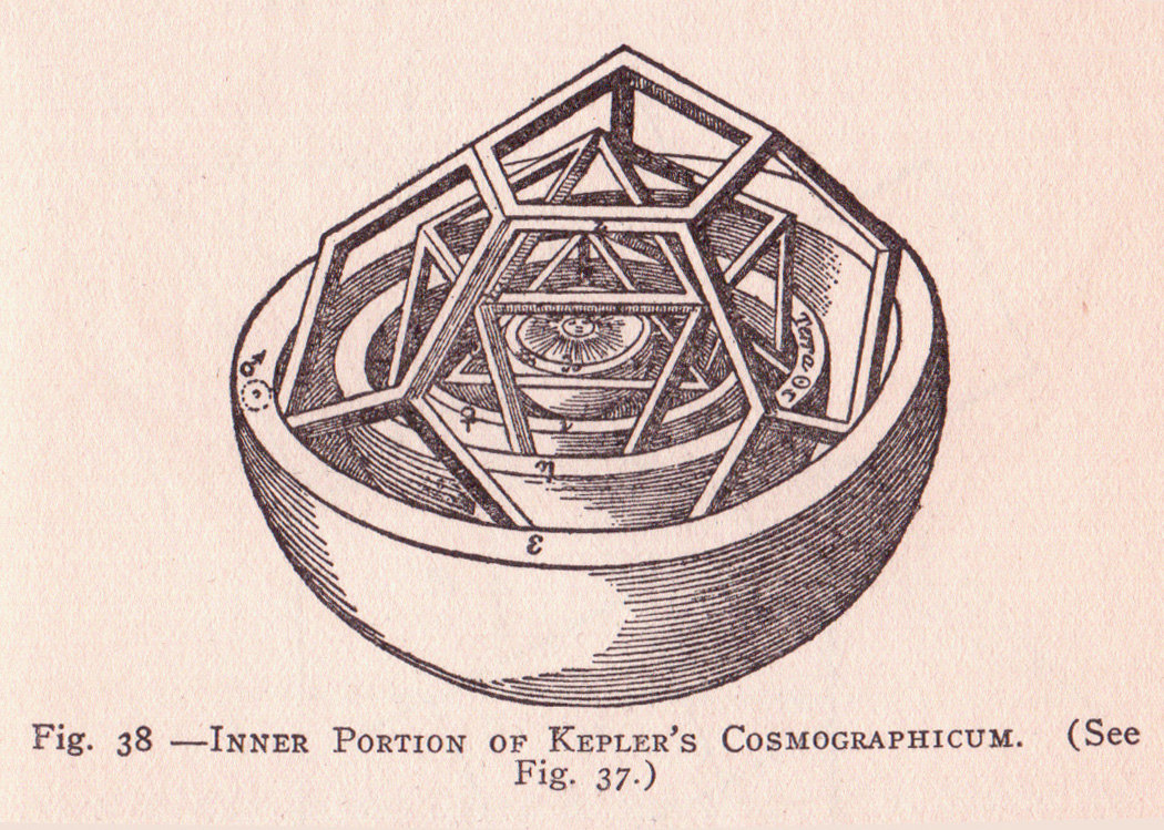 From the book, "The Science-History of the Universe" by Francis Rolt-Wheeler, Copyright 1910, The Current Literature Publishing Company, New York. This illustration is from page 113. This is the inside of the "Mysterium cosmographicum" Flickr data on 2011-08-16: Tags: vintage, book, image, illustration, drawing, public domain, copyright free, pre-1923 License: CC BY 2.0 User: perpetualplum Sue Clark